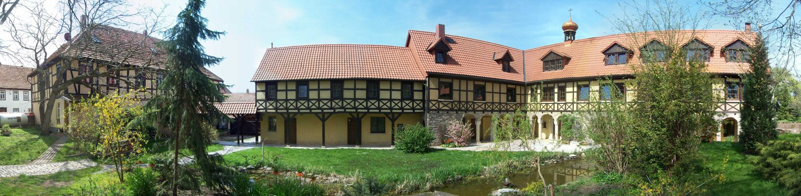 Das Kloster St. Wigberti in einer Panoramaaufnahme aus dem Jahre 2004